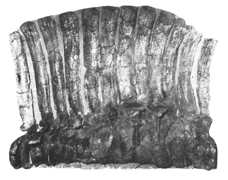 Barsboldia sicinskii gen. et sp.n., type specimen ZPAL MgD-11110, Nemegt Formation, N Nemegt, Nemegt Basin, Gobi Desert, Mongolia 1. Right lateral view of sacrum, neural spine of last dorsal and two anterior caudals included.